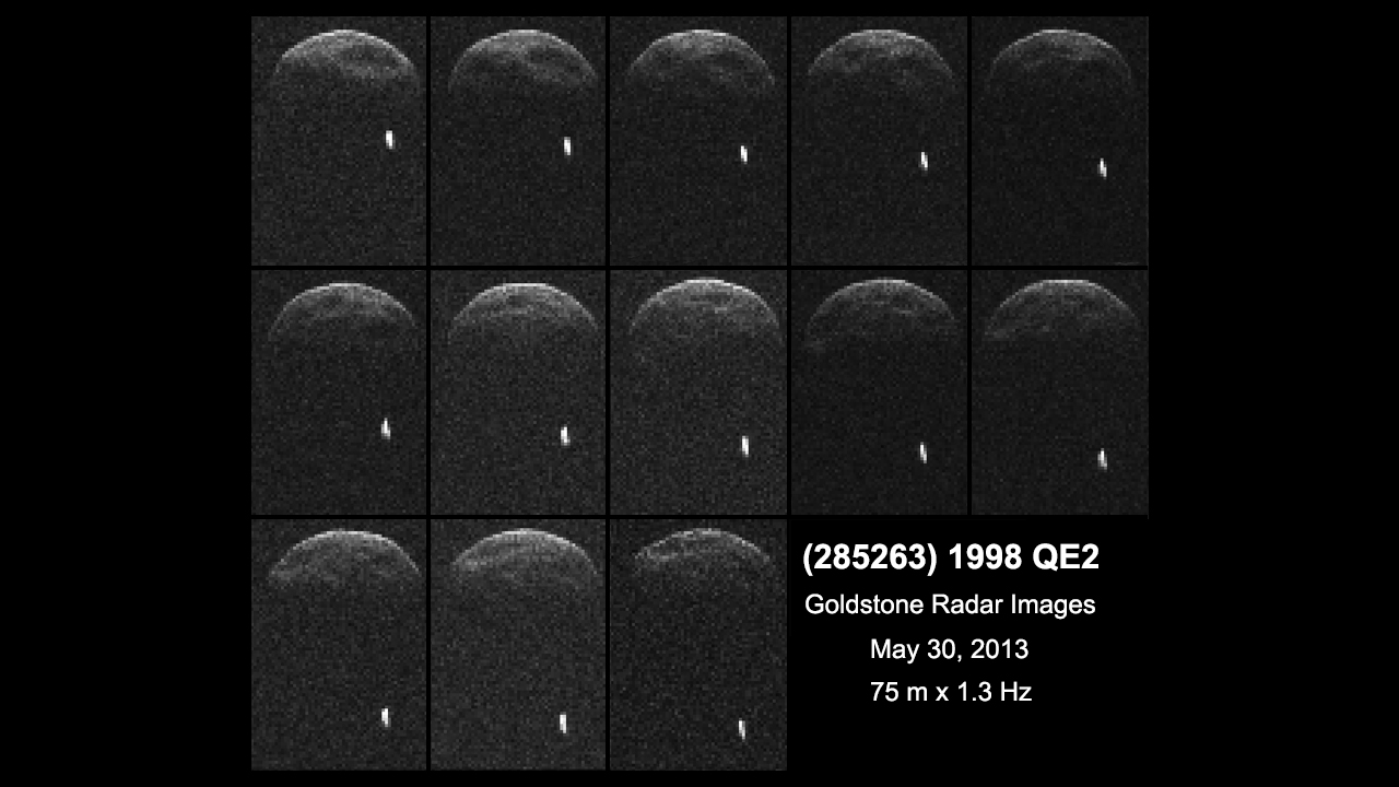 Asteroid_1998_QE2_May_30,_2013_Goldstone